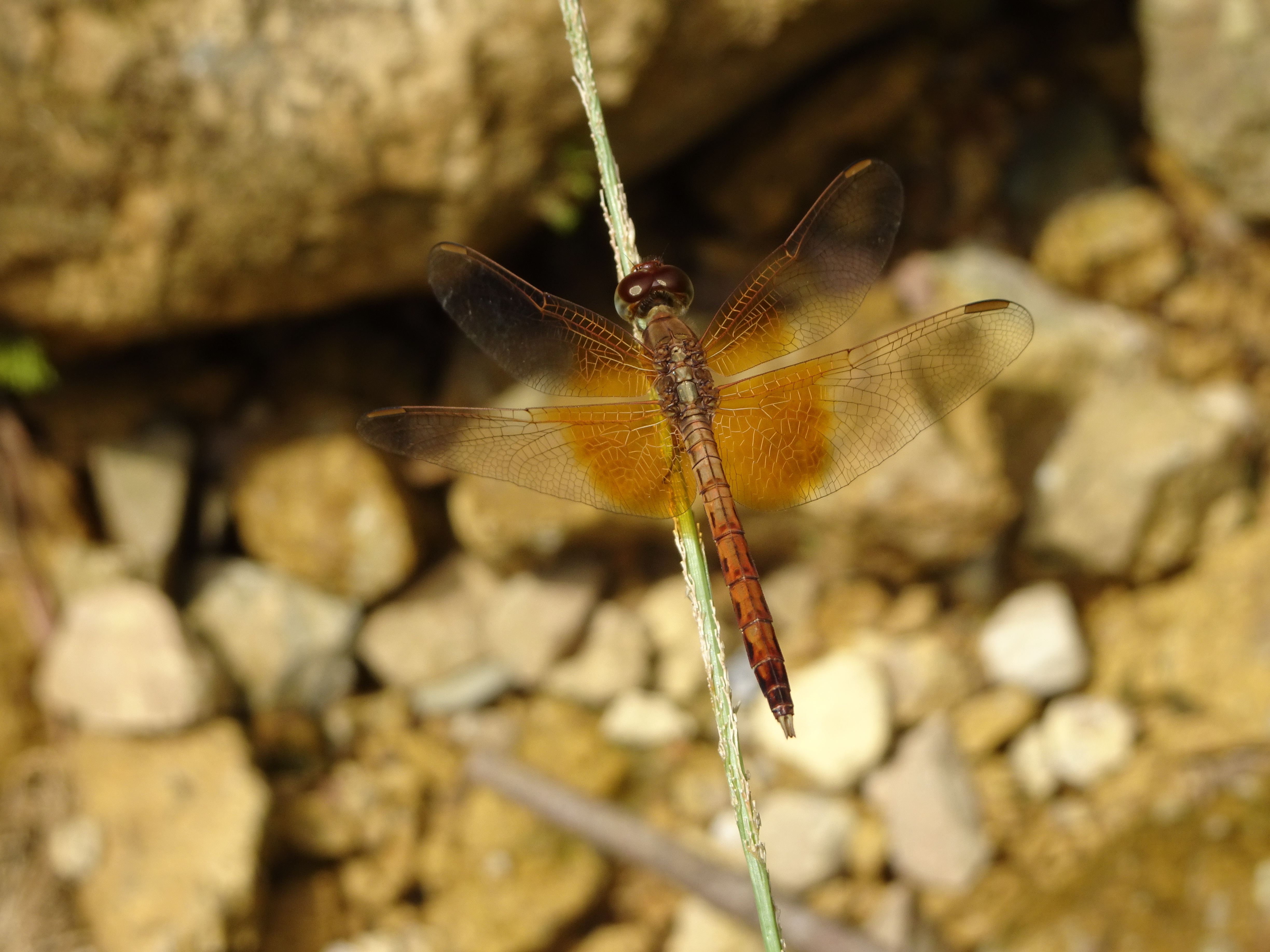 Neurothemis intermedia aka the Paddyfield Parasol taken at Bhorletar, Lamjung